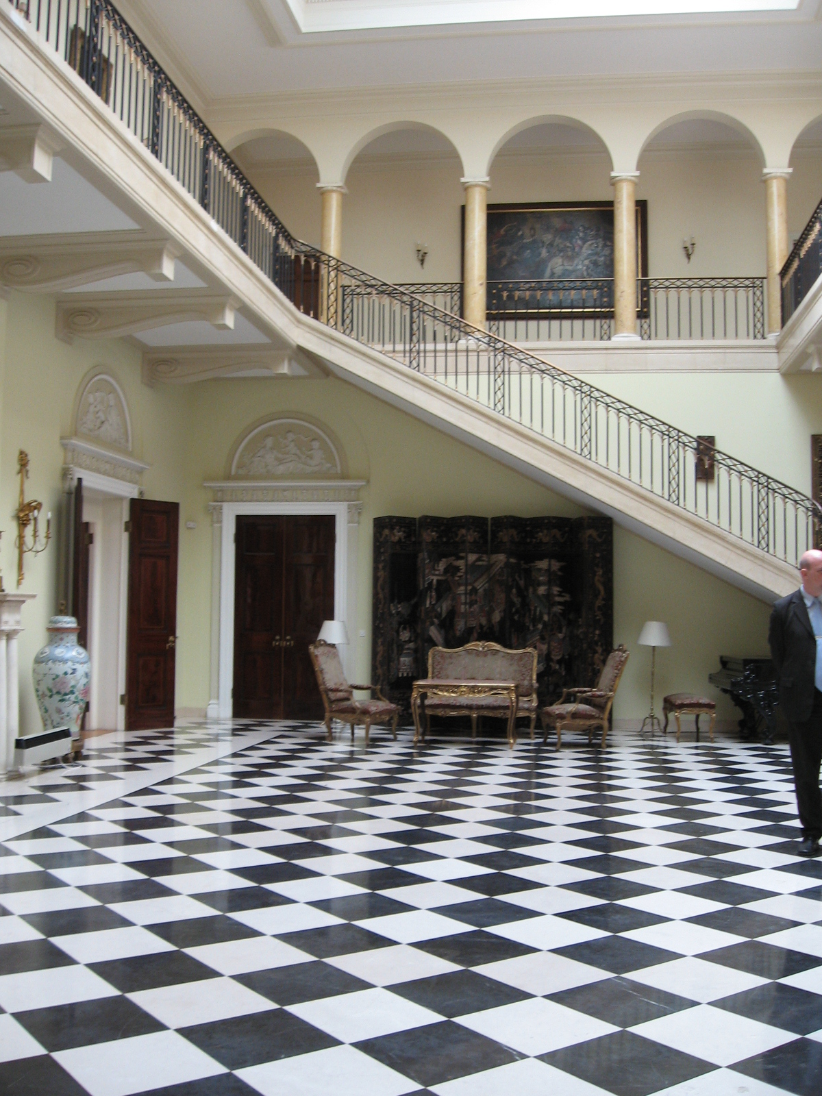 Beli dvor, Belgrade: the hall